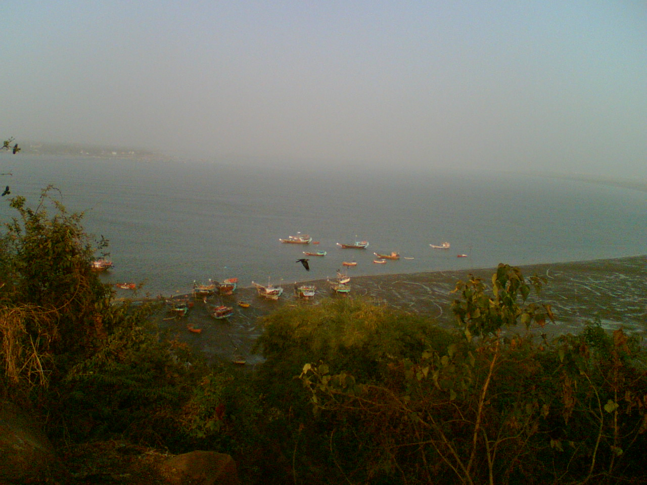 Fishing in Gorai Beach (Mumbai)